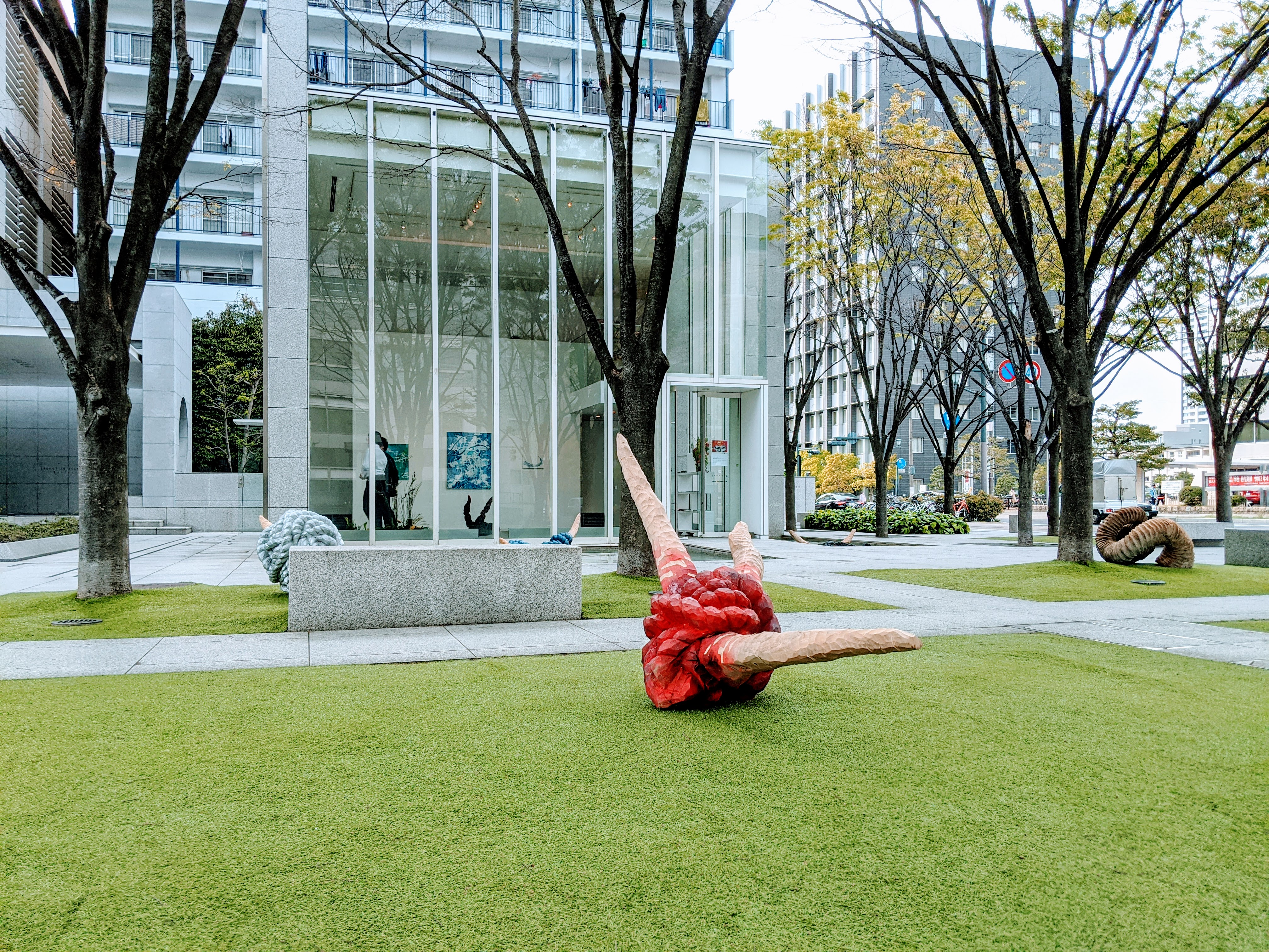 A view of Kimura Shota's exhibition in Gallery G, Hiroshima.